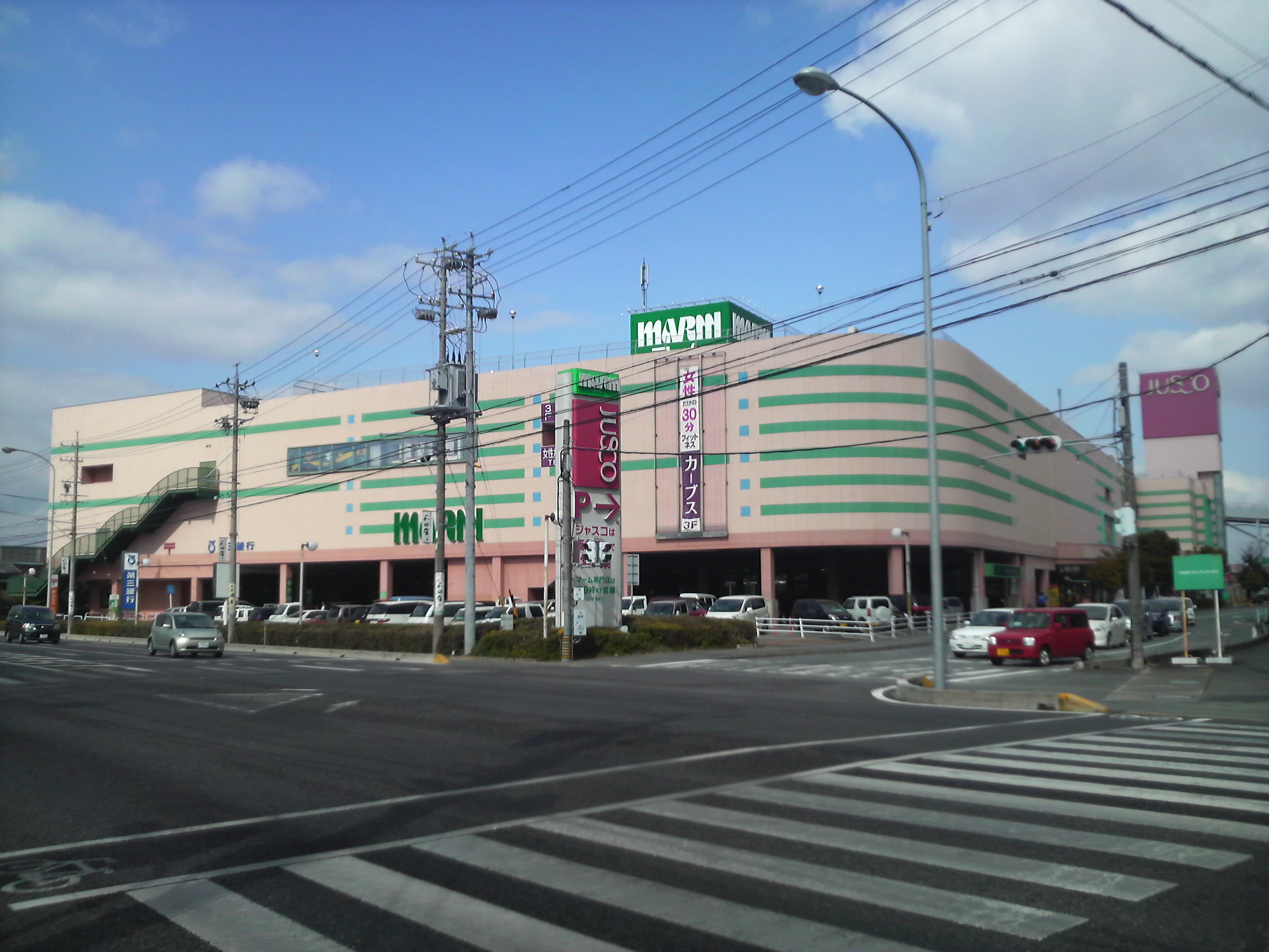 The "Matsusaka Shopping Center MARM" in Matsusaka city, Mie Prefecture, Japan.